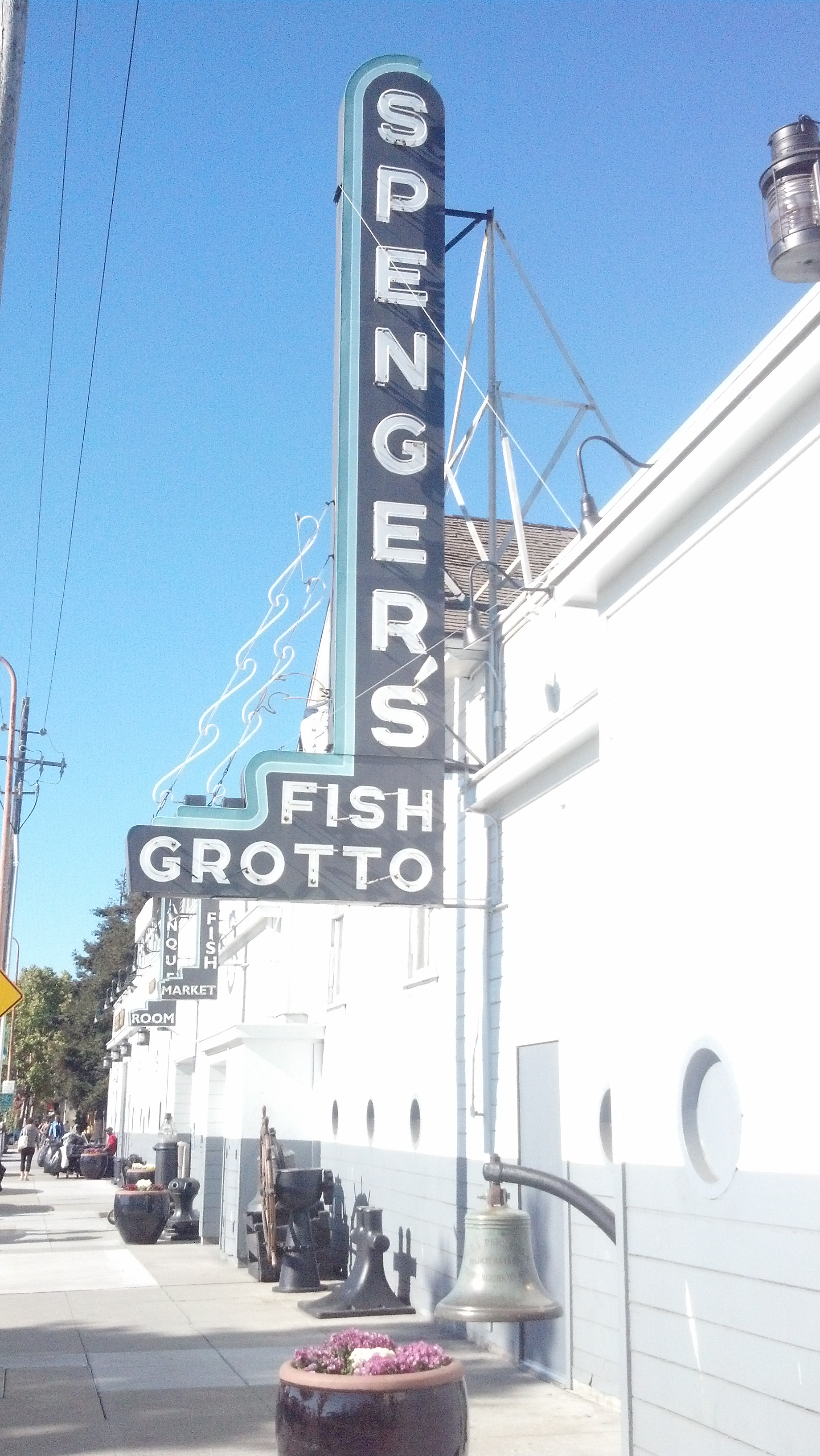 Historic seafood restaurant located in Berkeley, California.